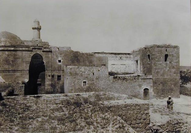 East side, northern half of the Firdaws Madrasa